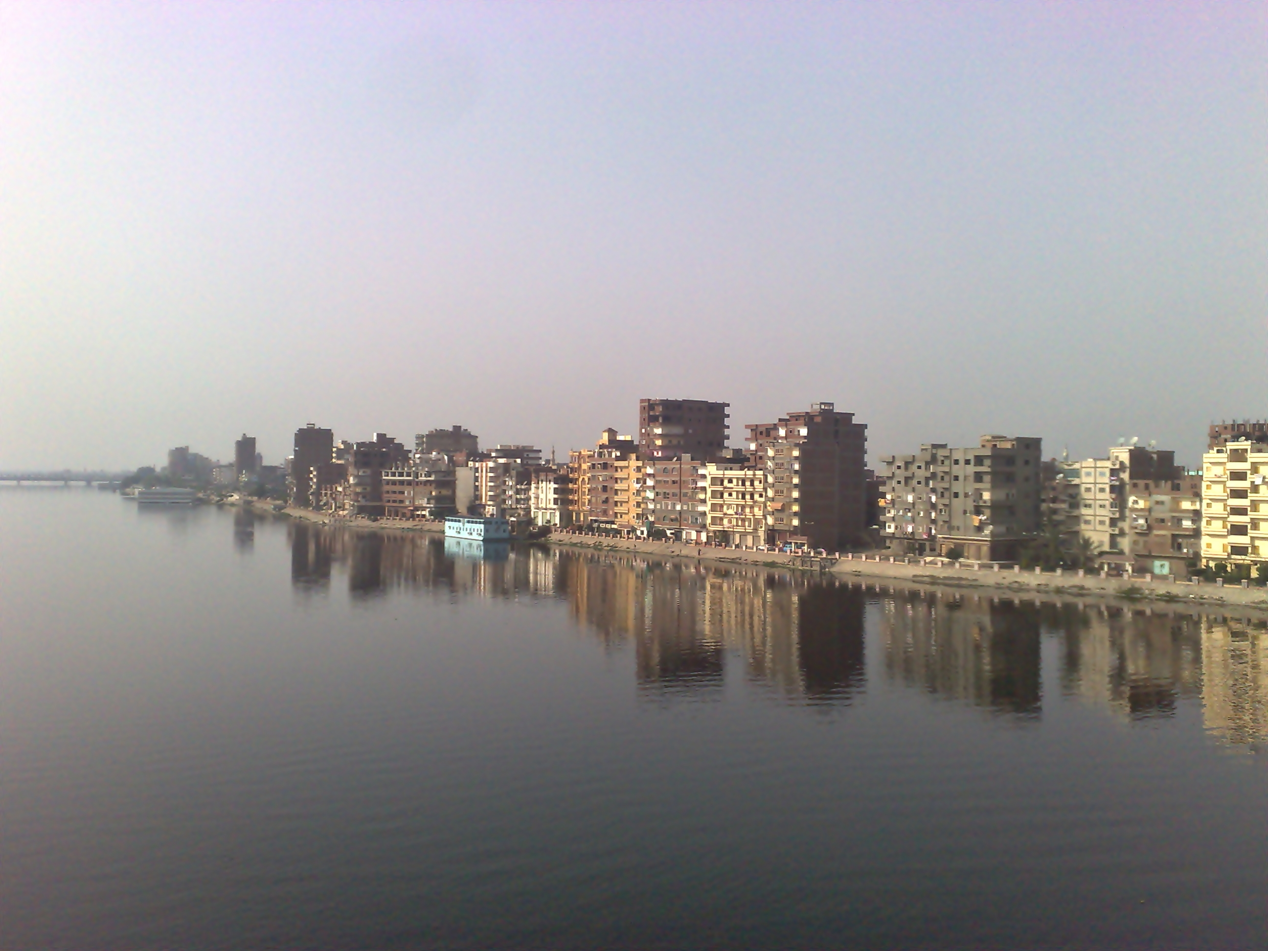 Desouk on The Nile